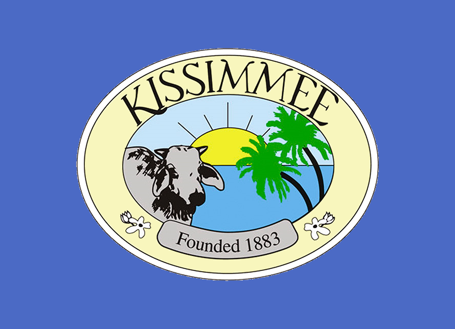 The official city flag of Kissimmee, Florida, consisting of the city seal on a blank light blue opaque background. Additional information about the flag can be found here.